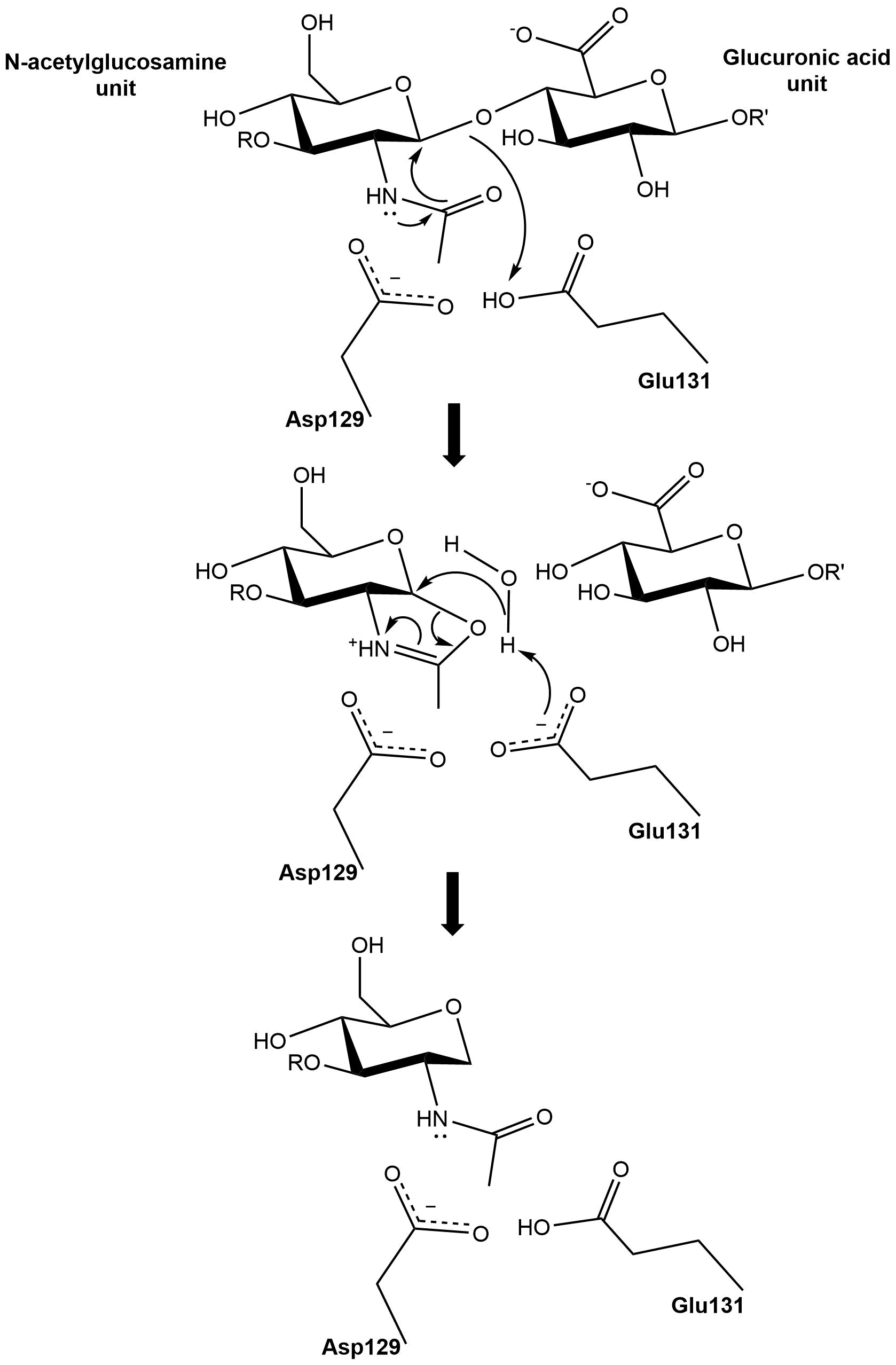 Mechanism of hyaluronic acid degradation by hyaluronidase 1 (HYAL-1)